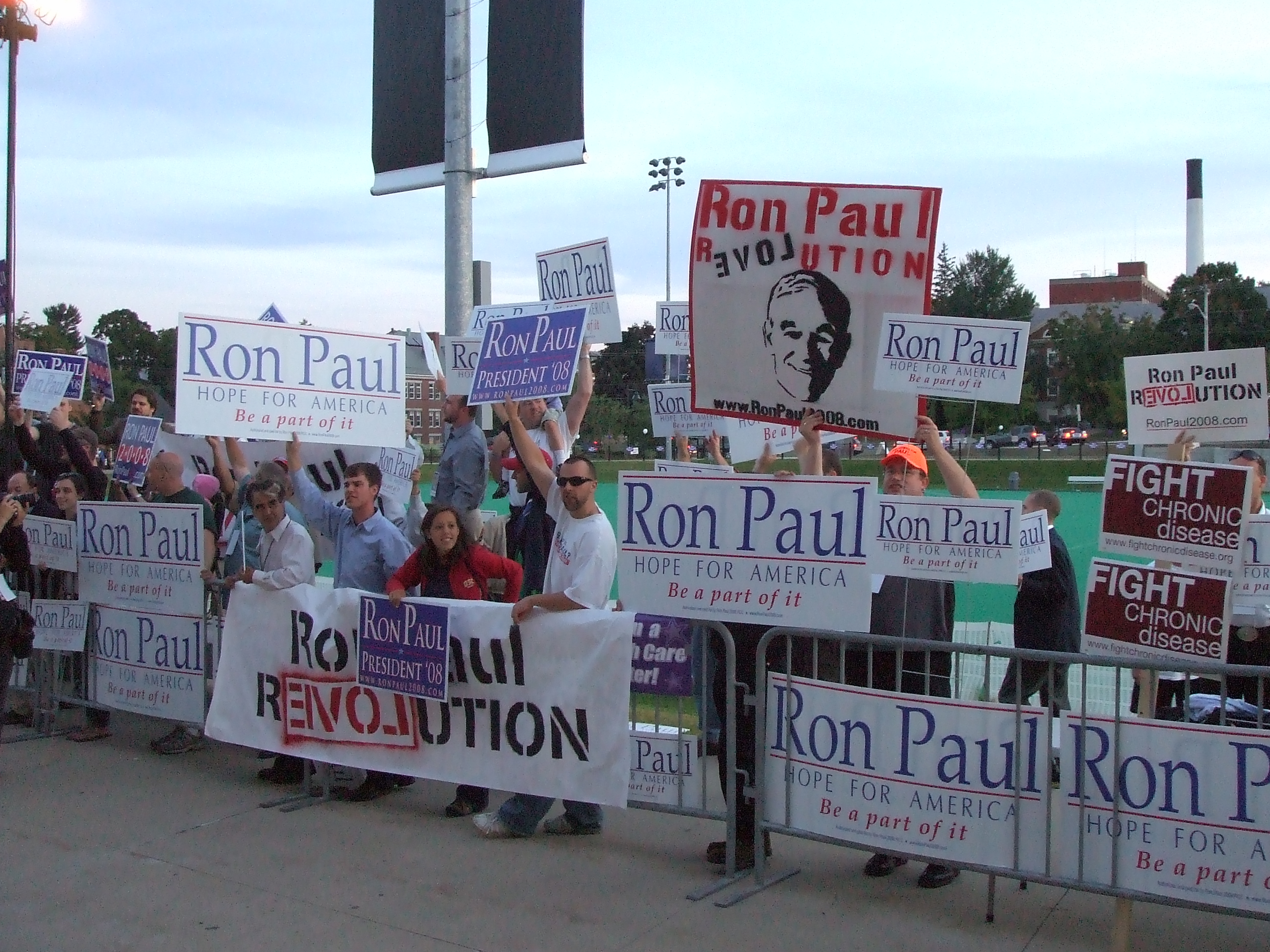 Ron Paul supporters rallying outside of the Whittemore Center at the University of New Hampshire in Durham. (5Sept07) I took this picture and hereby release it into the public domain.